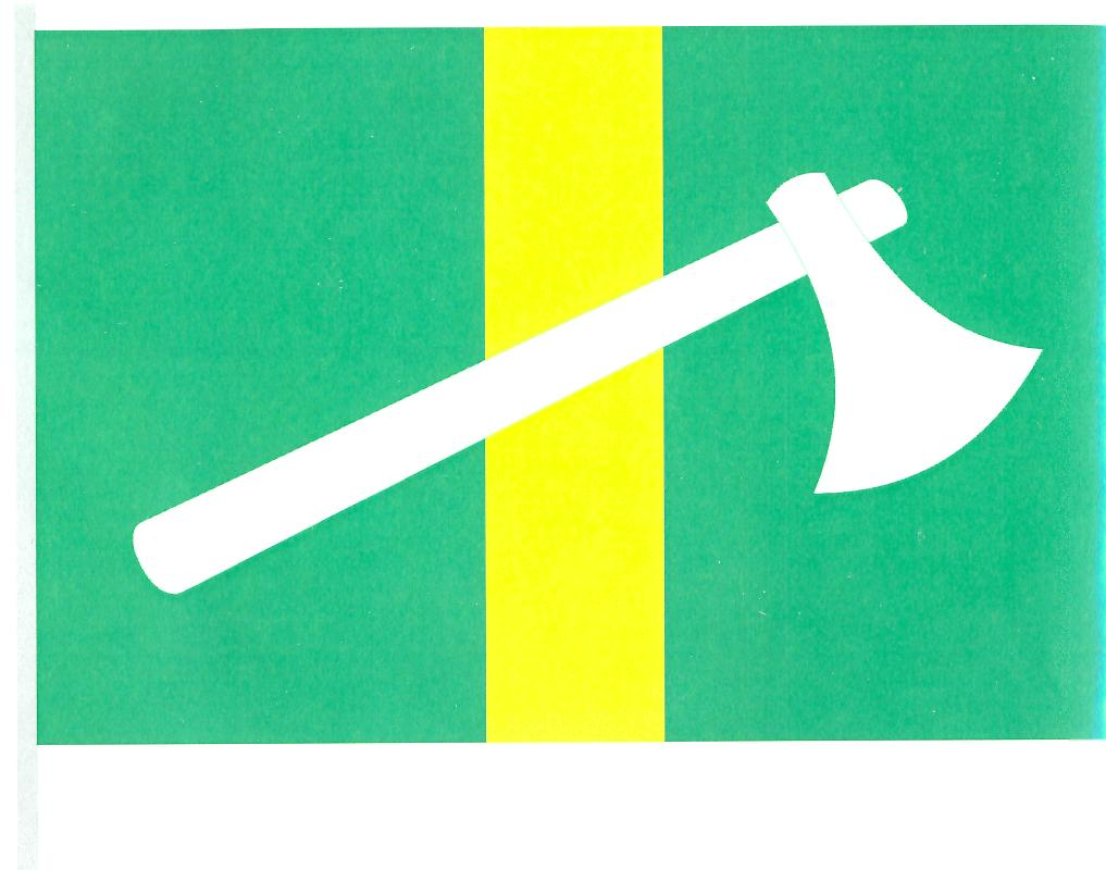 Flag of Řídeč, Olomouc District